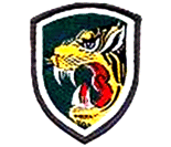 Capital Division (South Korea)